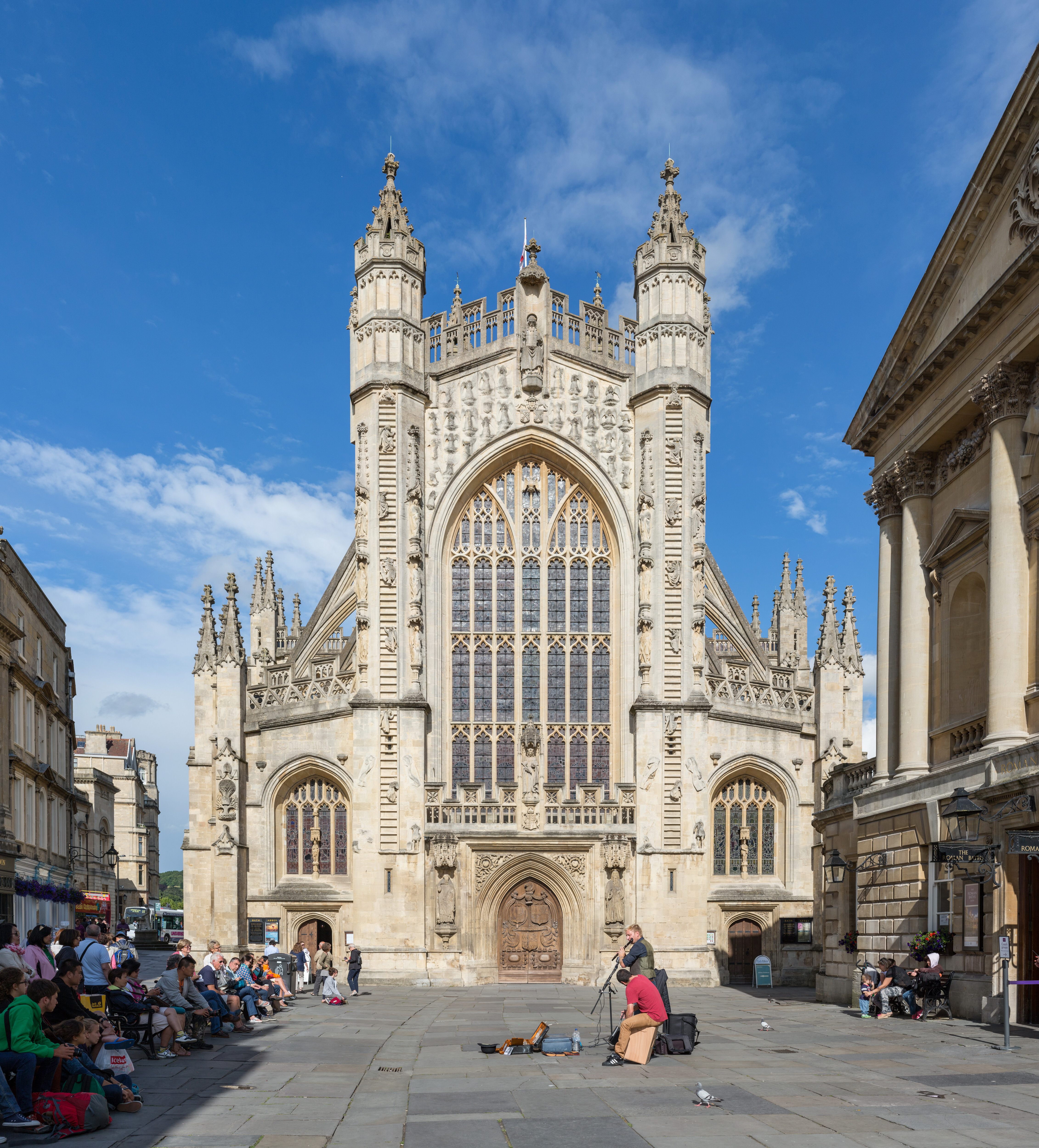 Bath Abbey's exterior as viewed from the west in Somerset, England.